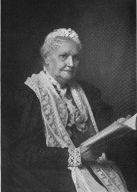 Julia Caroline Ripley Dorr